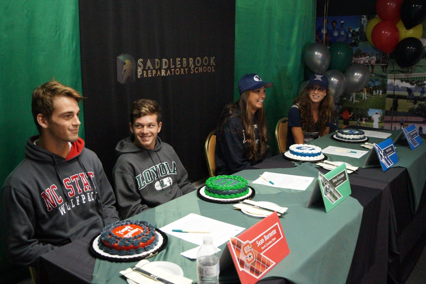 National Signing Day, November 2015